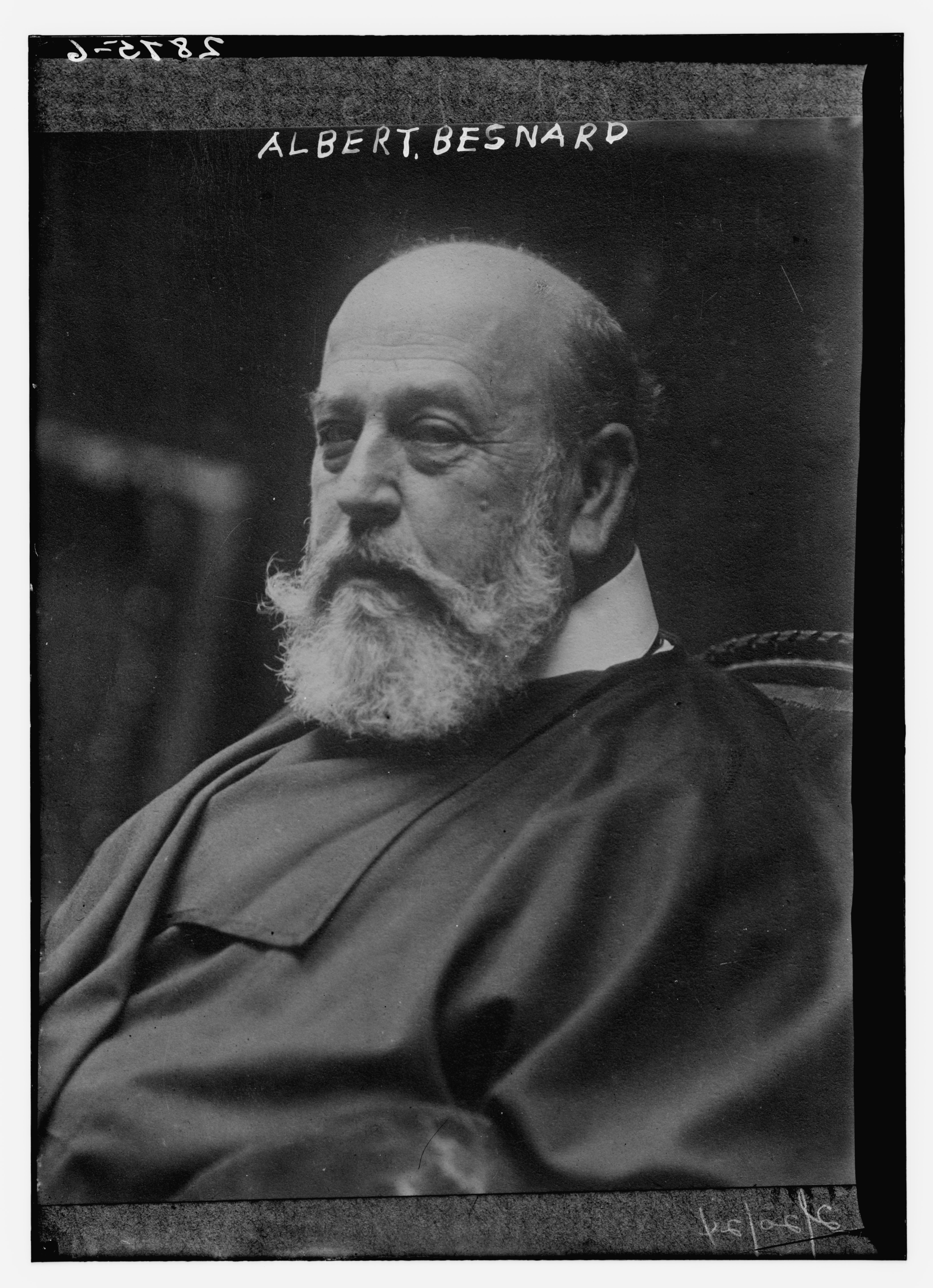 Paul-Albert Besnard (1849 -1934) . 1 negative : glass ; 5 x 7 in. or smaller.